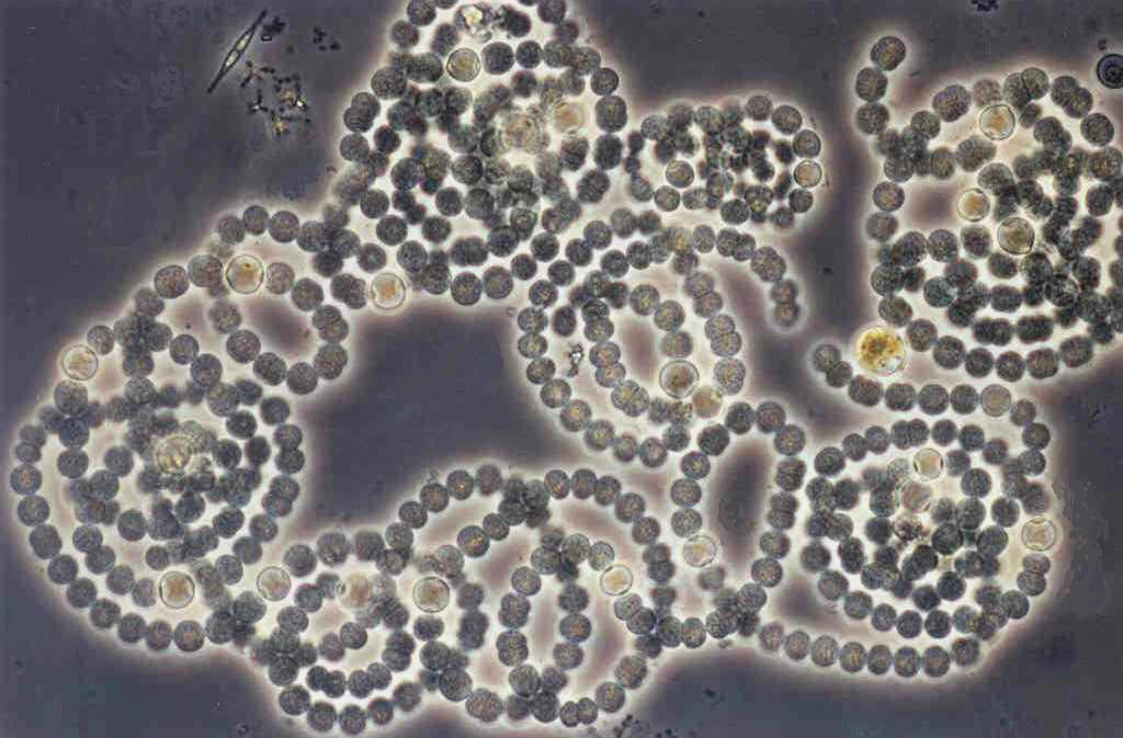 Images have been made by Nikon Eclipse E 600 light microscope using an original magnification of 400x - 600x range, at South-Transdanubian Emvironment Protection Inspectorate, Laboratory for Environment Protection (Hungary). Photos of algae have been taken from samples of natural surface waters of South-Transdanubian region; the majority originated from river Dráva and lake Baláta. Images have been made by phase contrast setting, whereas a blue color filter has been used instead of a green one recommended by the literature. The reason of the change is that although the green filter gives a sharp image, it reflects the shades of gray color only. When using a blue color filter, the sharpness of the image is barely reduced, but the colors of the object are retained. Scientific names of algal species are found in the header of the images.